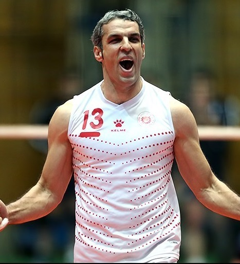 Behboudi in an Iranian volleyball league match, 2014, Tehran